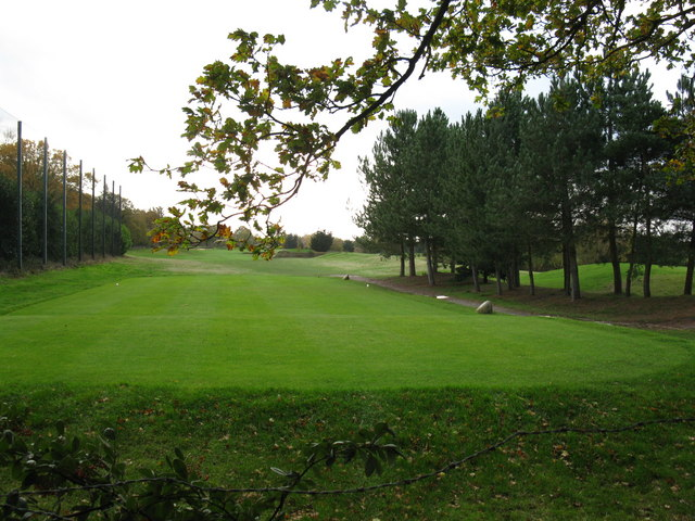 Thirteenth tee at Sand Martins Golf Course The public footpath runs alongside the course here.